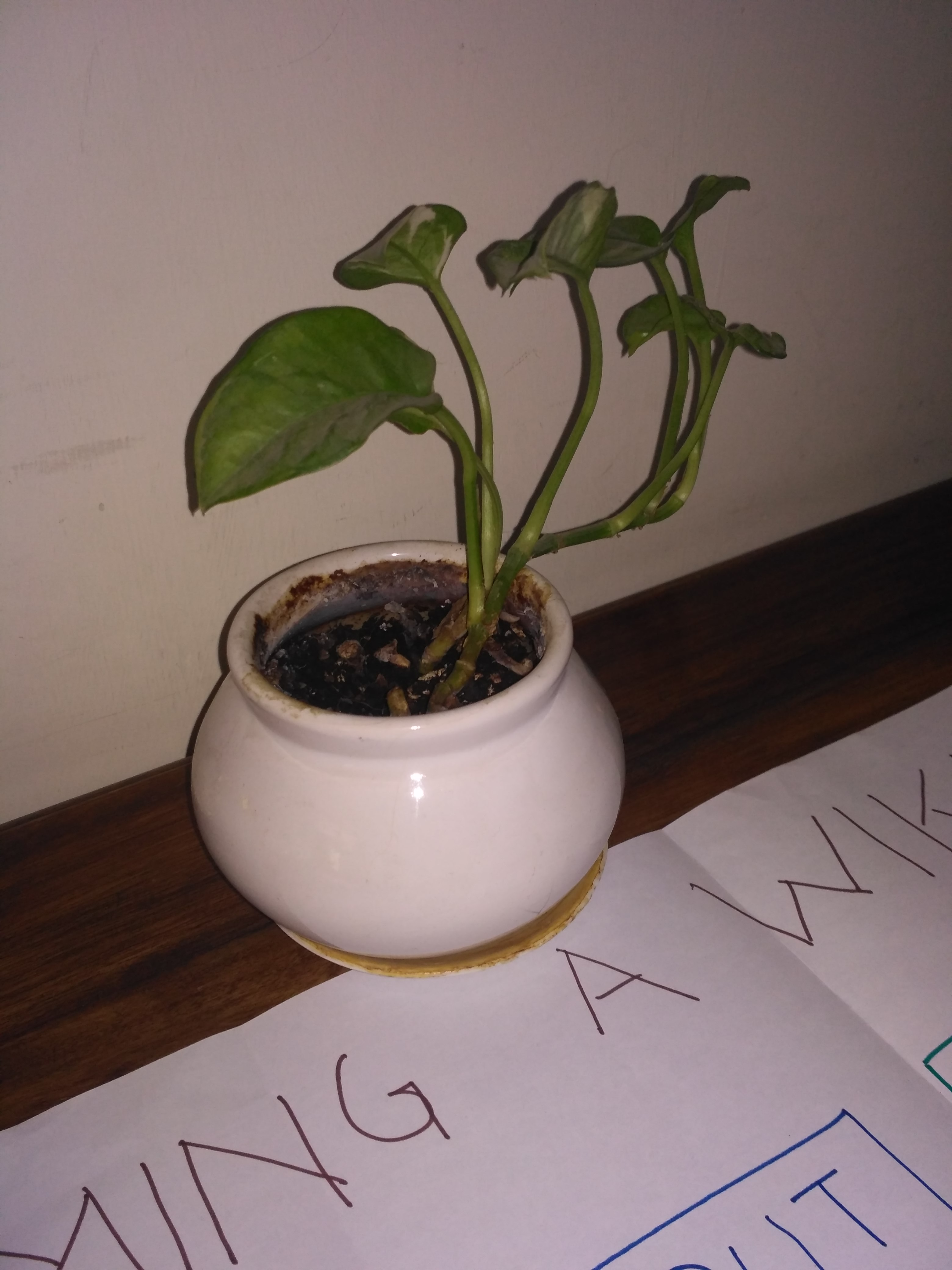 Money Plant in Delhi CIS Office